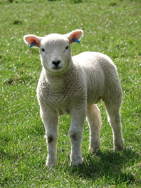 A well-developed Texel lamb Texel sheep originate from the island of Texel, one of the northwestern islands off Holland. In the early 1930s the breed was introduced to France; the first Texel sheep, four rams which were imported for experimental purposes, were brought to the United Kingdom in 1970, and in 1973 sheep farmers from Lanarkshire imported a number of ewes and rams from France. Presently the British Texel Sheep Society is the largest pedigree sheep society in the country; farmers favour the breed for its exceptional carcass qualities.